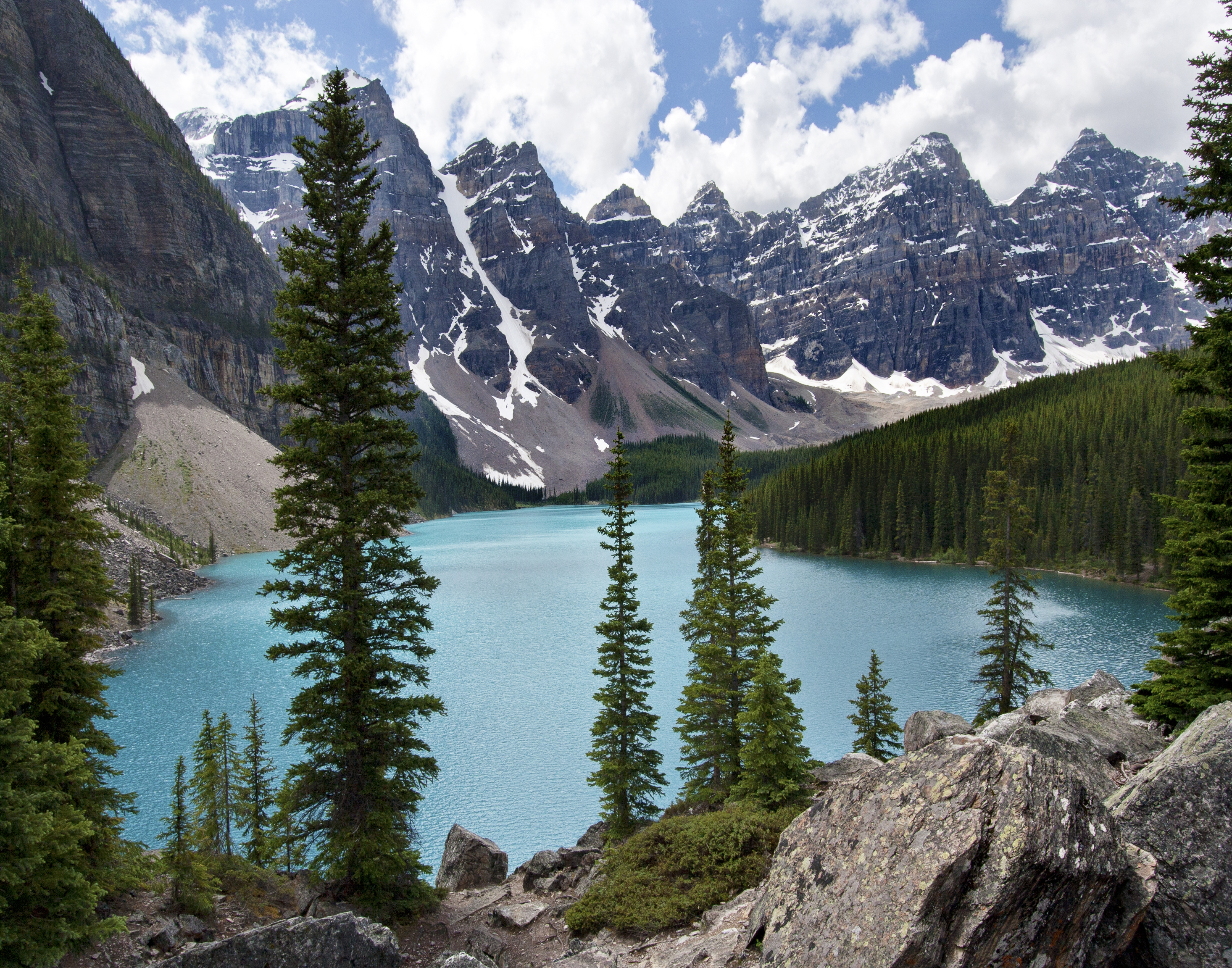 Lake Moraine, Canada